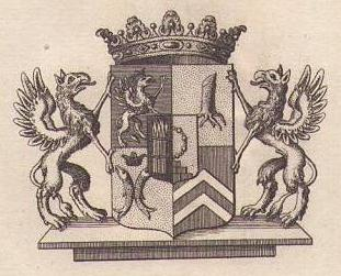 Coat of arms of the Counts of Stralenheim-Wasaburg, Plate 25 from K. Tyroff: Wappenbuch des Gesammten Adels des Königreichs Baiern.